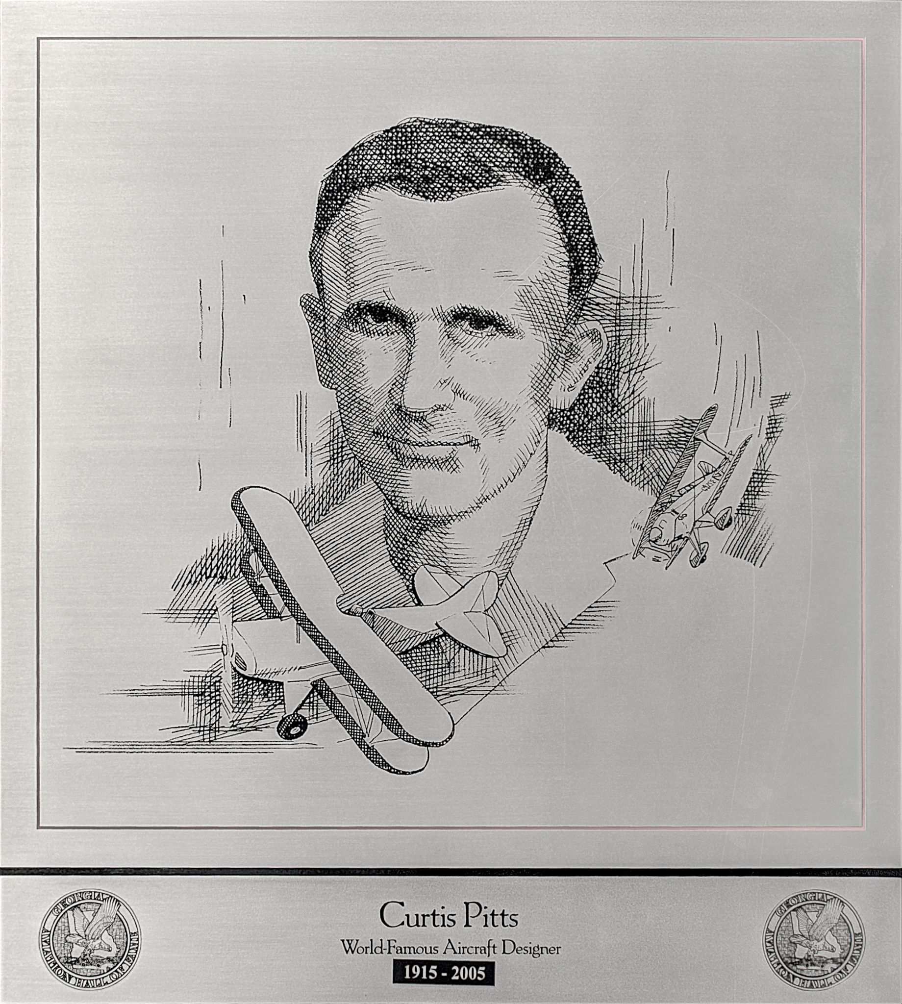 Curtis Pitts (1915 - 2005)